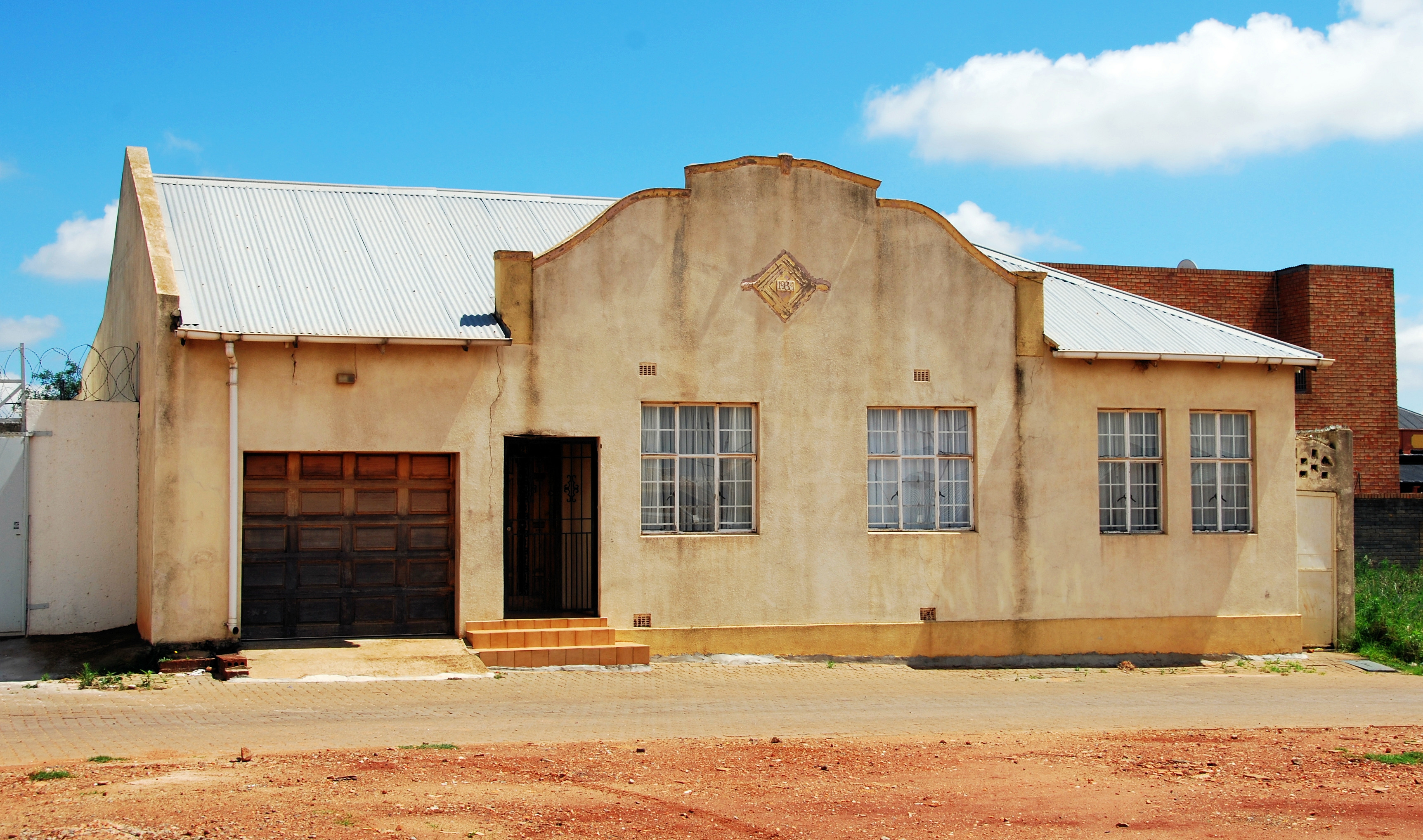 A house dating from 1934 in Pageview, Johannesburg, South Africa